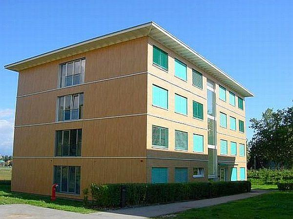 Hall of residence "Bourdonette" in Lausanne